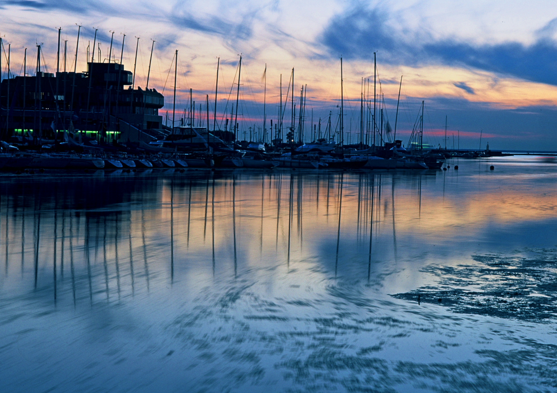 Tallinn Olympic Yachting Centre